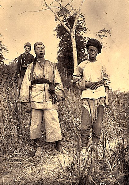 Chinese prisoners captured by the French during the siege of Tuyen Quang (November 1884-March 1885)